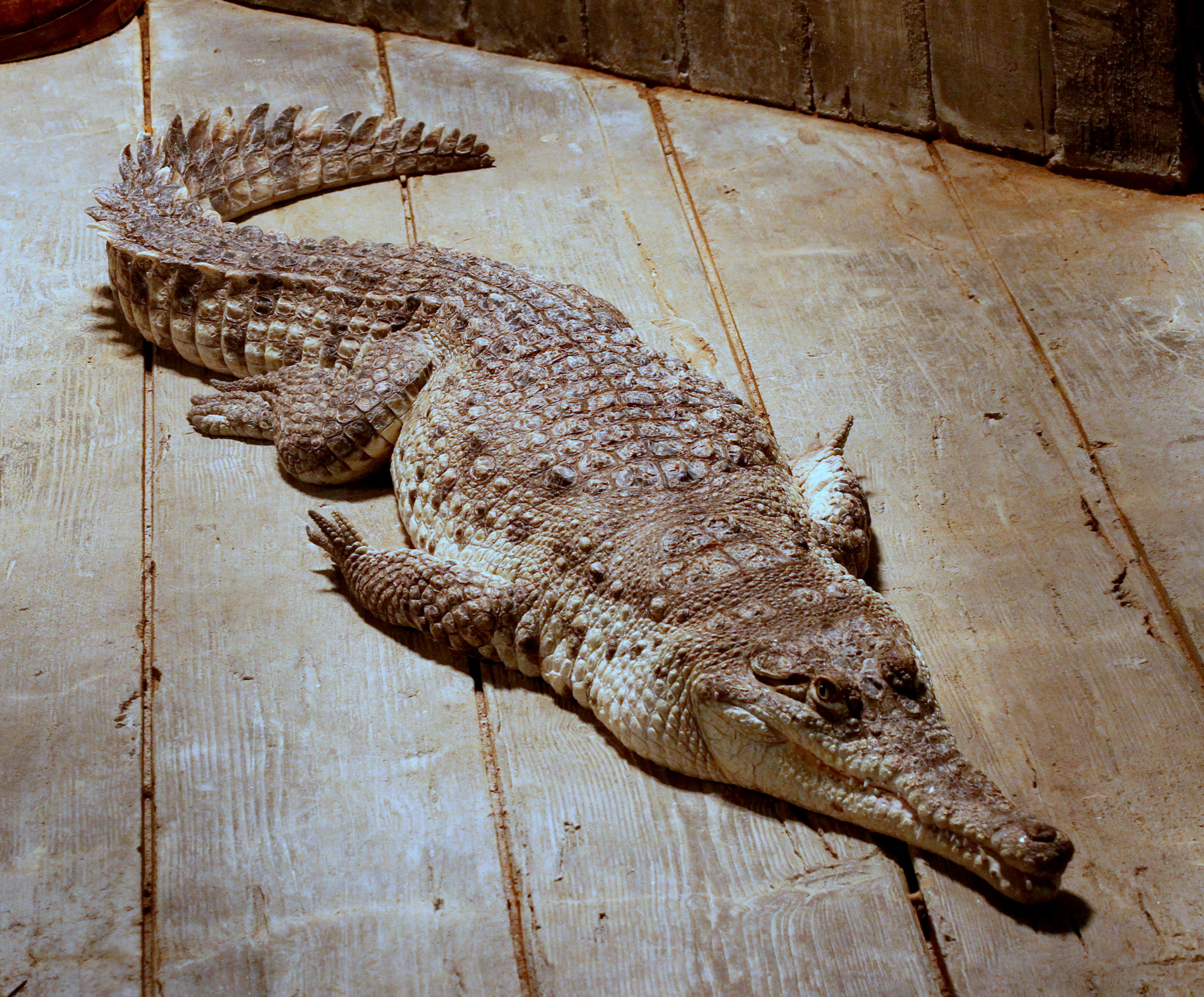 Crocodylus intermedius (Orinoco crocodile) taken at Newport Aquarium.